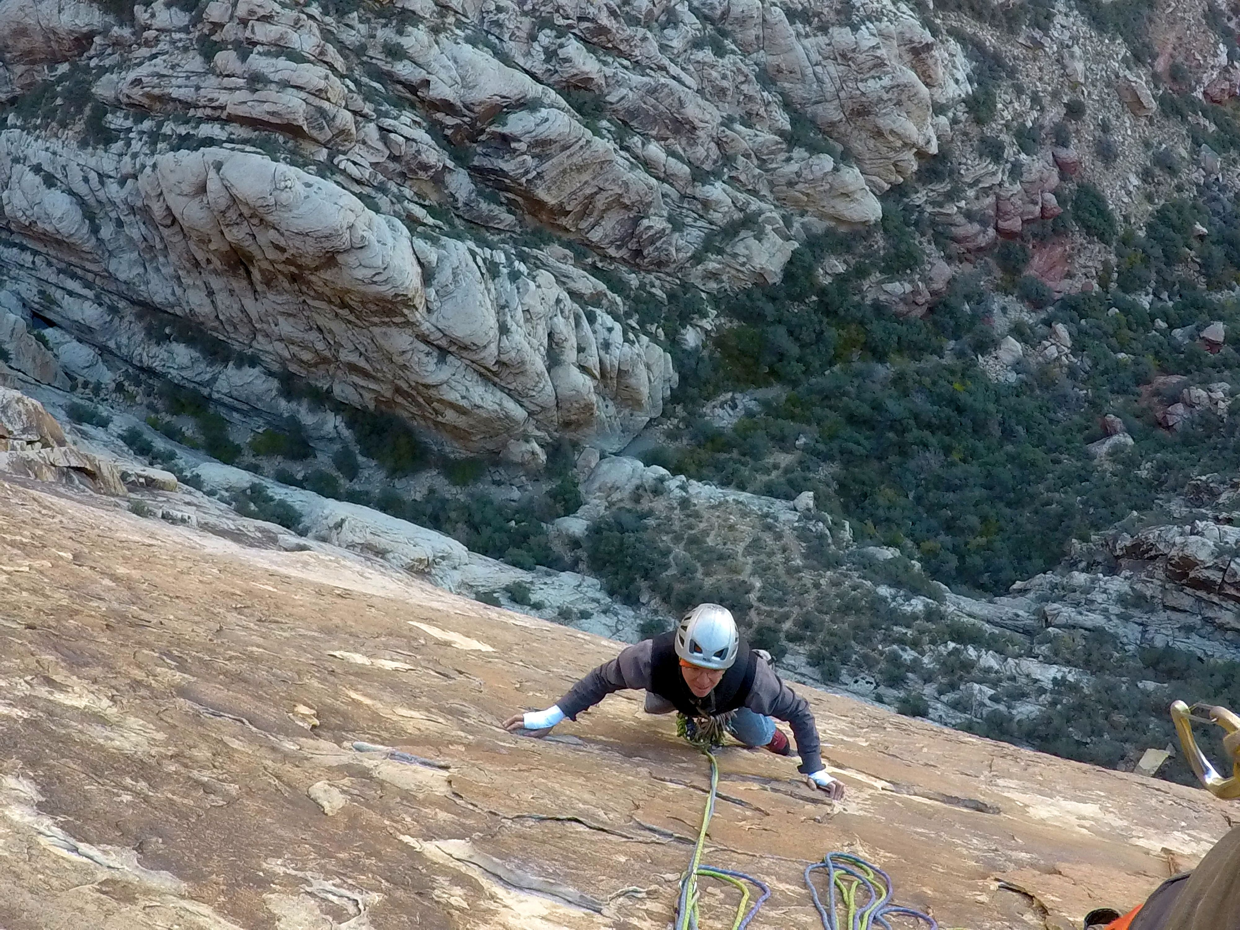 Red Rock Canyon National Conservation Area: Climbing Prince of Darkness (5.10c).